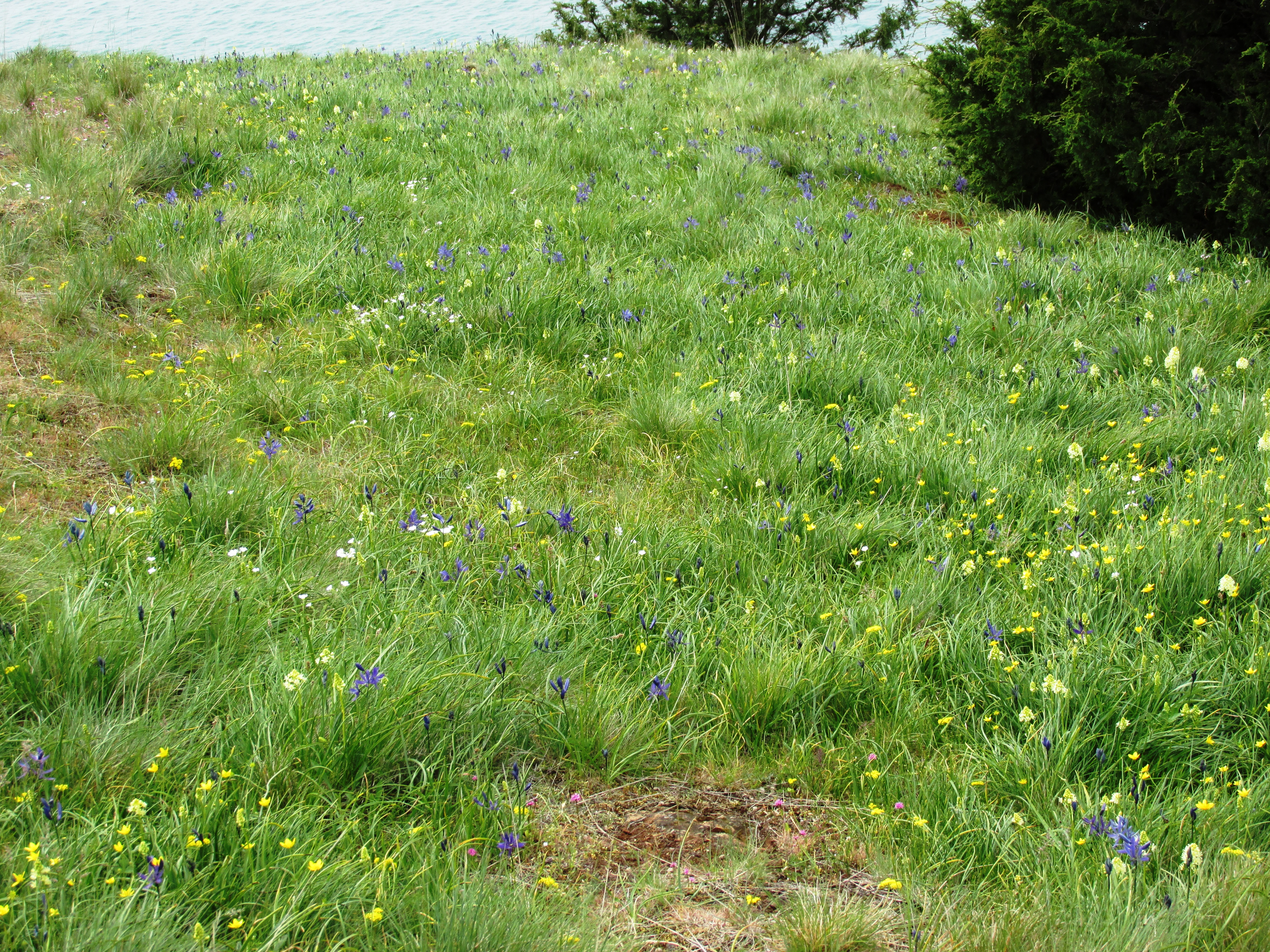 Lots of Camassia quamash (Common Blue Camas) and Toxicoscordion venenosum (Death Camas) growing together Washington Park, Anacortes, Skagit County, Washington